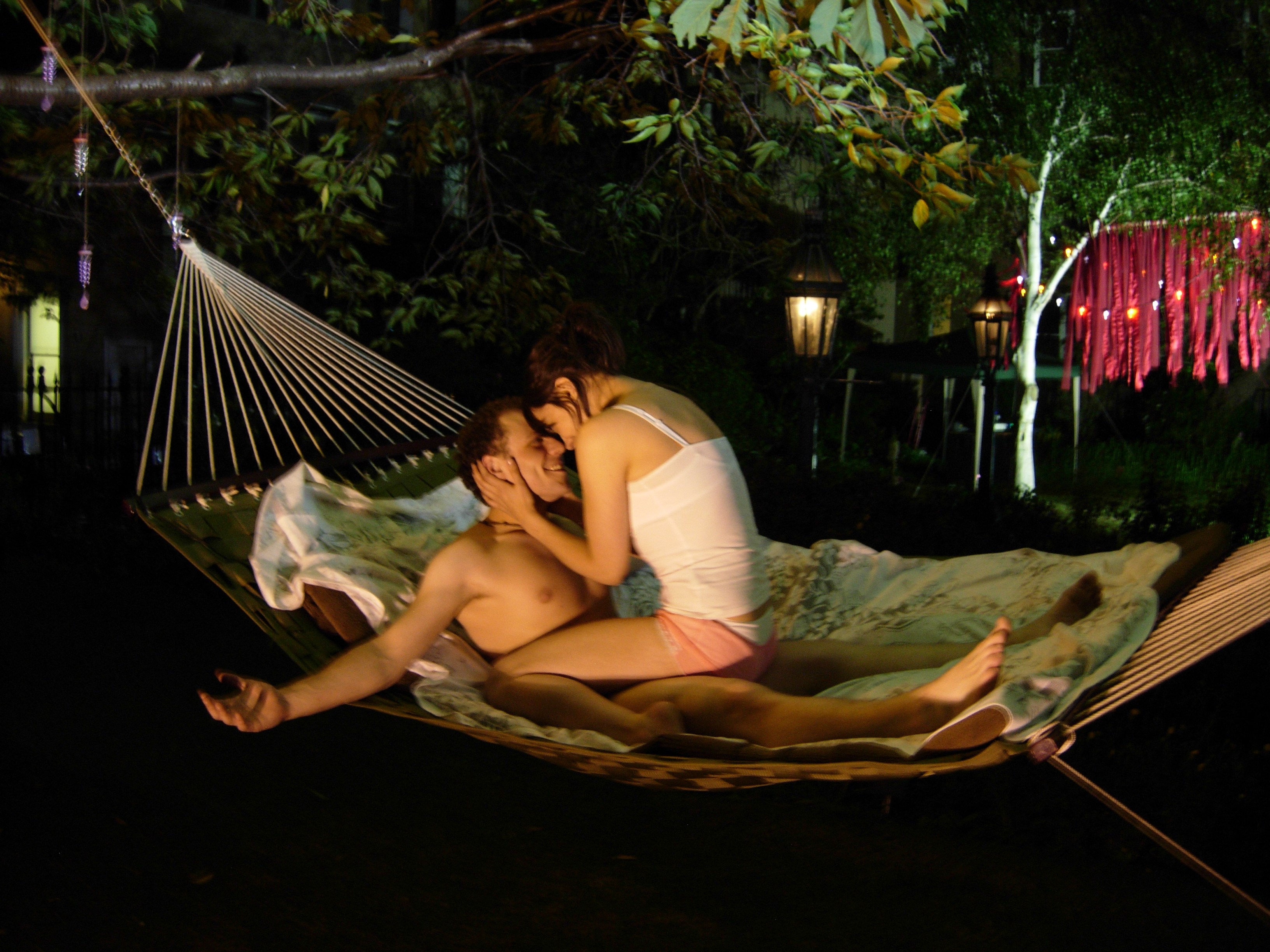 Production photograph of Iris Theatre's production of 'Rome & Juliet'. The performers are Laura Wickham and Samuel Donnelly.